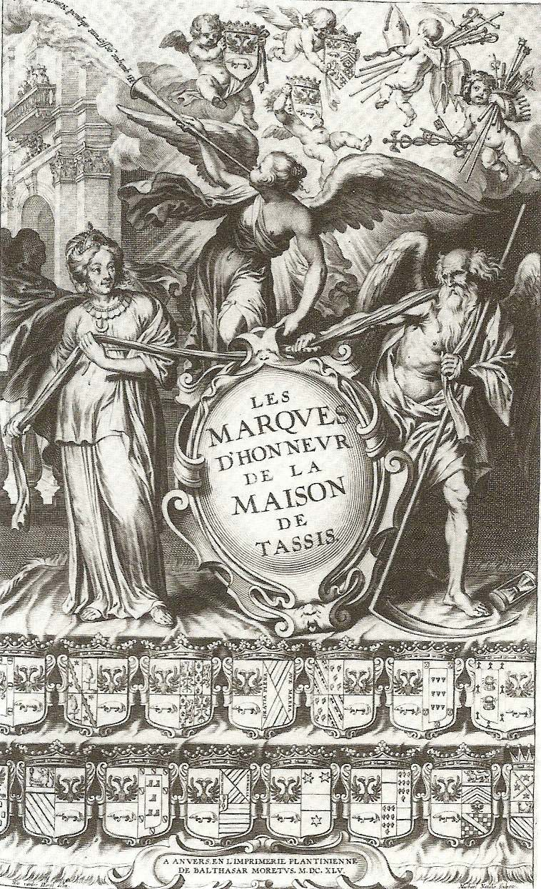 Frontispiece of the book 'Les marques d'honneur de la maison de Tassis' of Julius Chifletius